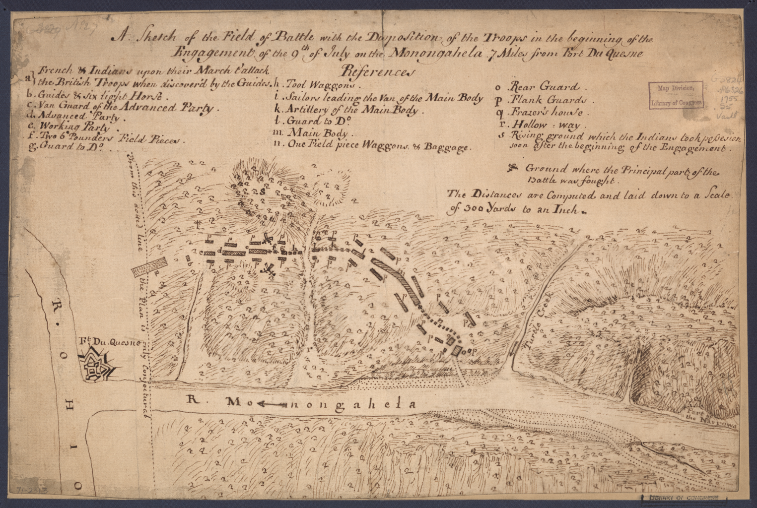 This manuscript pen-and-ink map shows the disposition of troops at the beginning of the Battle of Monongahela, which took place on July 9, 1755, in the second year of the French and Indian War. Determined to drive the French out of western Pennsylvania, the British had sent a force of 2,000 army regulars and colonial militia commanded by General Edward Braddock to capture Fort Duquesne, located at the confluence of the Allegheny and Monongahela rivers in what is now downtown Pittsburgh. After an arduous march through northern Virginia and western Maryland, Braddock turned north into Pennsylvania. On July 9, Braddock and a column of 1,300 men crossed the Monongahela River and began heading toward the fort, some ten miles (16 kilometers) downstream. They were attacked by a small detachment of French soldiers and several hundred Indian allies, including Ottawas, Miamis, Hurons, Delawares, Shawnees, and Iroquois. The British suffered a disastrous defeat: approximately 500 soldiers, including Braddock himself, were killed, and more than 450 were wounded. Among the survivors was Colonel George Washington, an aide to Braddock and commander of the Virginia Regiment. Allegheny River (Pennsylvania and New York); Battlefields; Battles; Great Britain--Colonies; Monongahela River Valley (West Virginia and Pennsylvania); Monongahela, Battle of the, Pennsylvania, 1755; Ohio River; Pittsburgh Region (Pennsylvania); United States -- History -- French and Indian War, 1754-1763